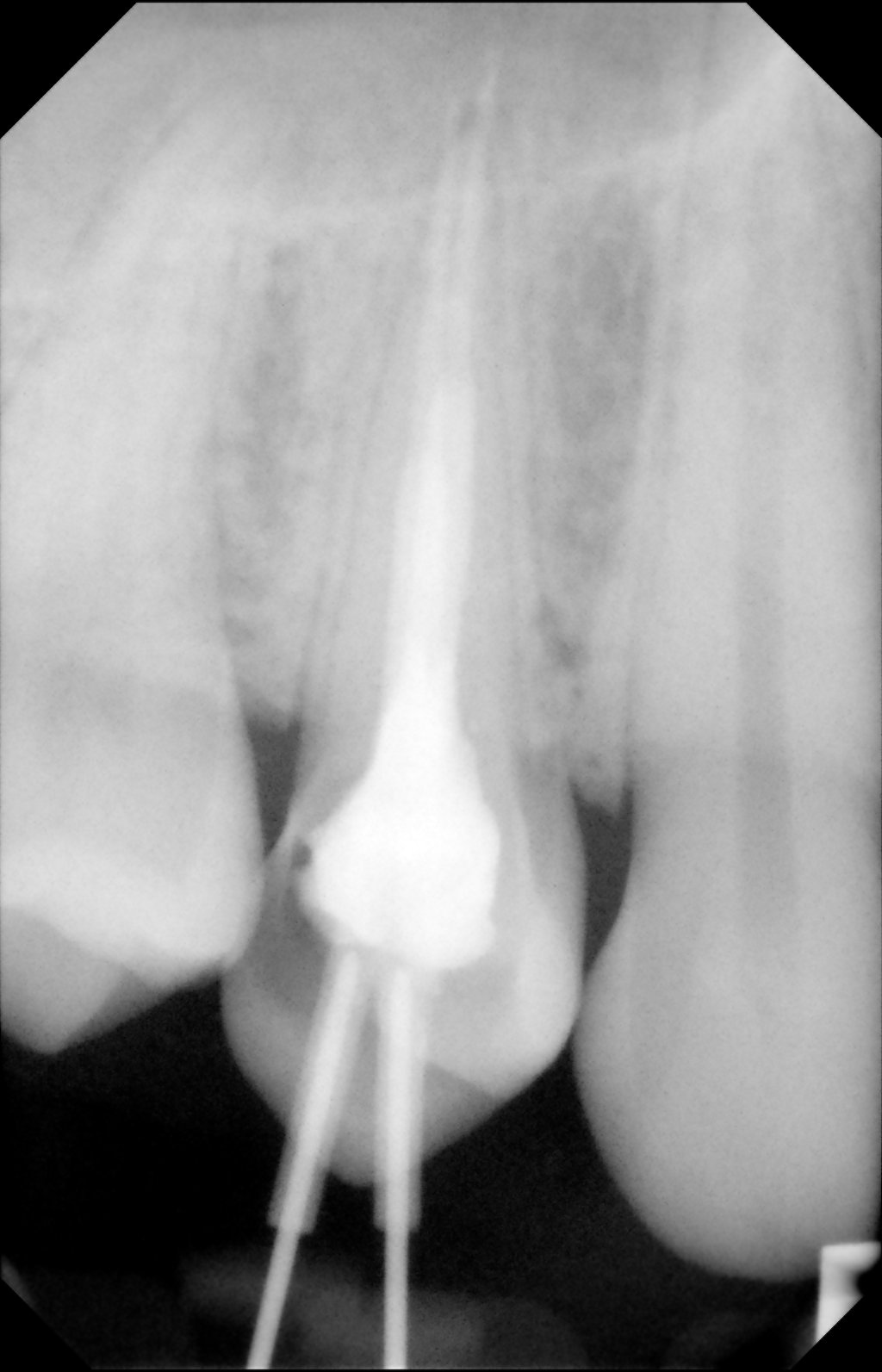 RVG foto of two filled root canals